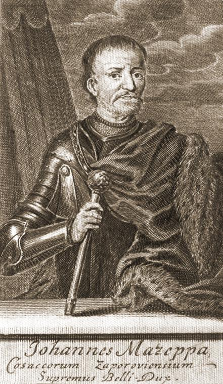 Ivan Mazepa